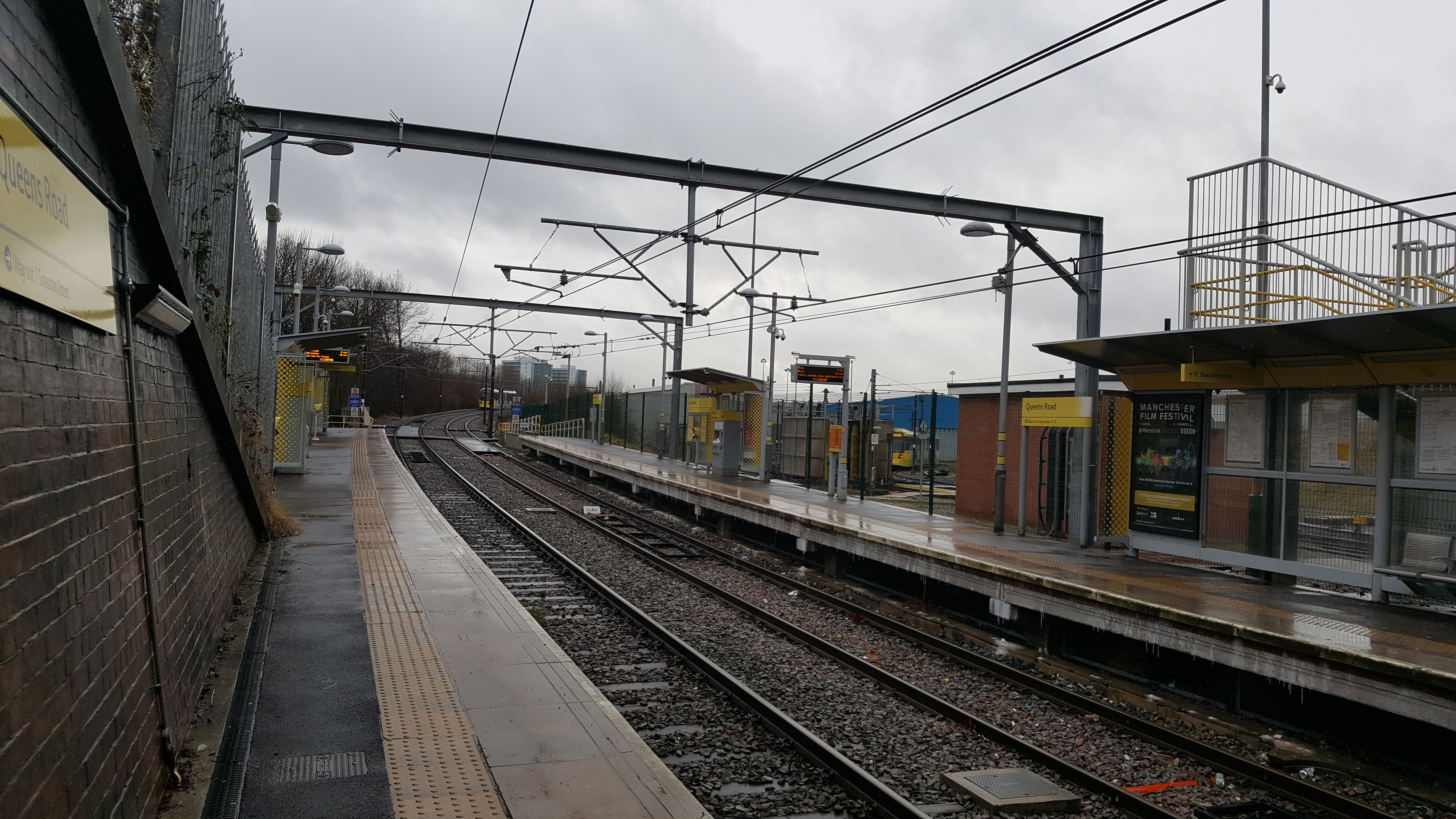 Queens Road looking towards Manchester.